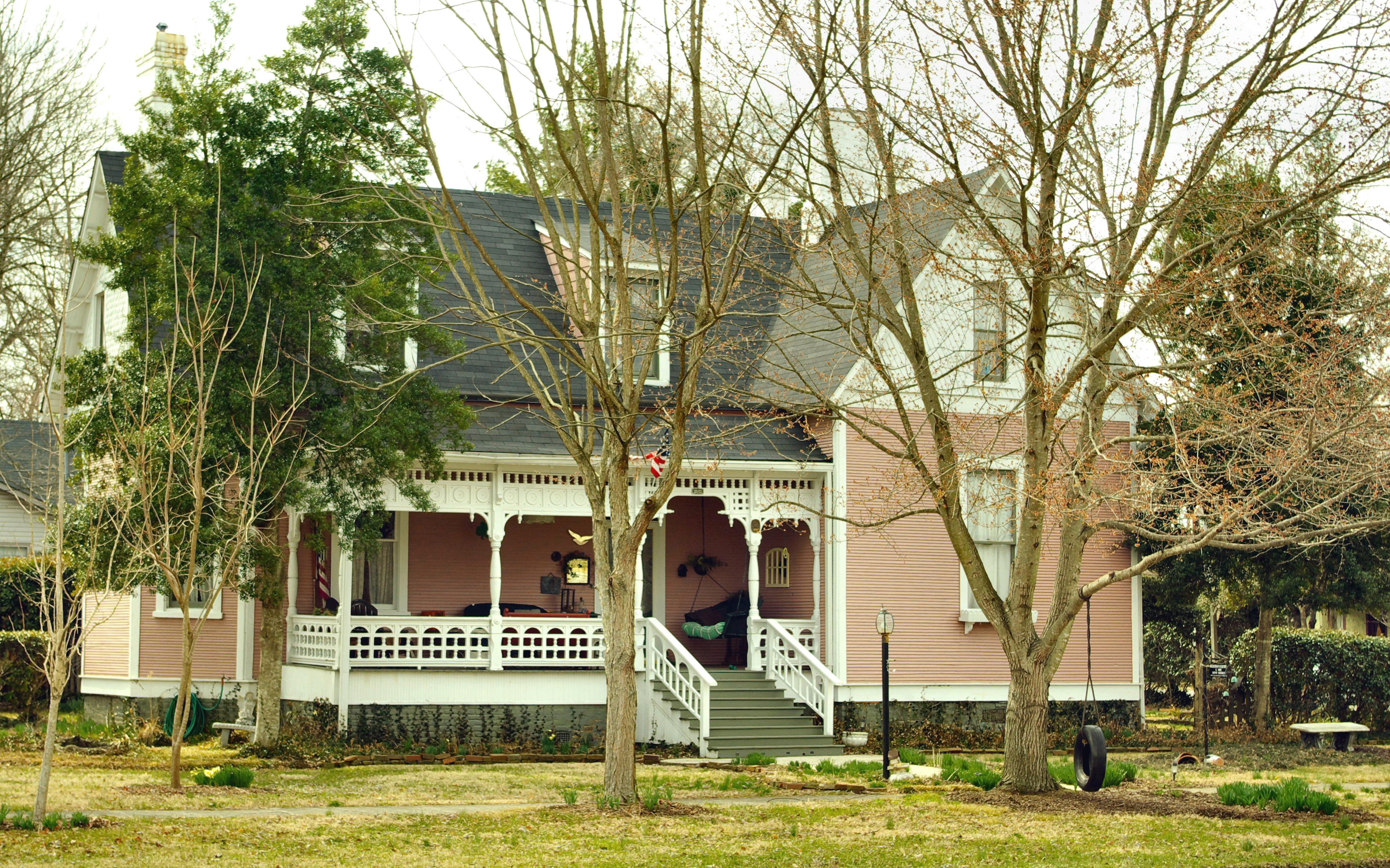 The Hickerson House in Tullahoma, Tennessee, United States, built in 1895 by Lytle David Hickerson